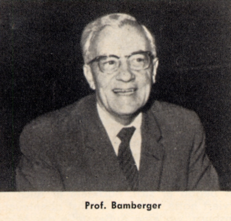 Philipp Bamberger (1898 - 1983), was leader of the childrens hospital of the university Koenigsberg/Prussia, todays Kaliningrad and after 1946 of the University of Heidelberg/Germany.